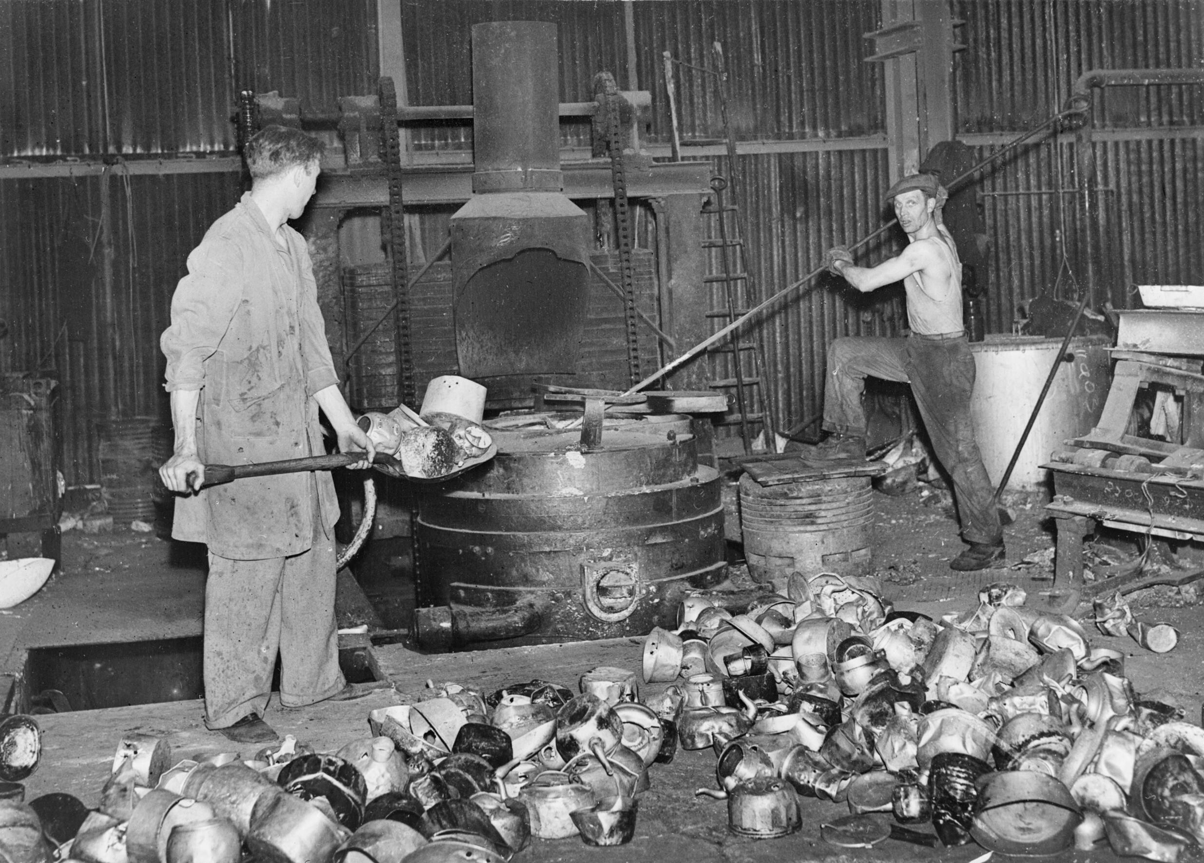 A selection of aluminium pots and kettles are put into the smelter at a workshop somewhere in Britain during a salvage drive in 1940. A selection of aluminium pots and kettles are put into the smelter at a workshop somewhere in Britain. A large pile of similar items can be seen in the foreground, waiting to be melted down.